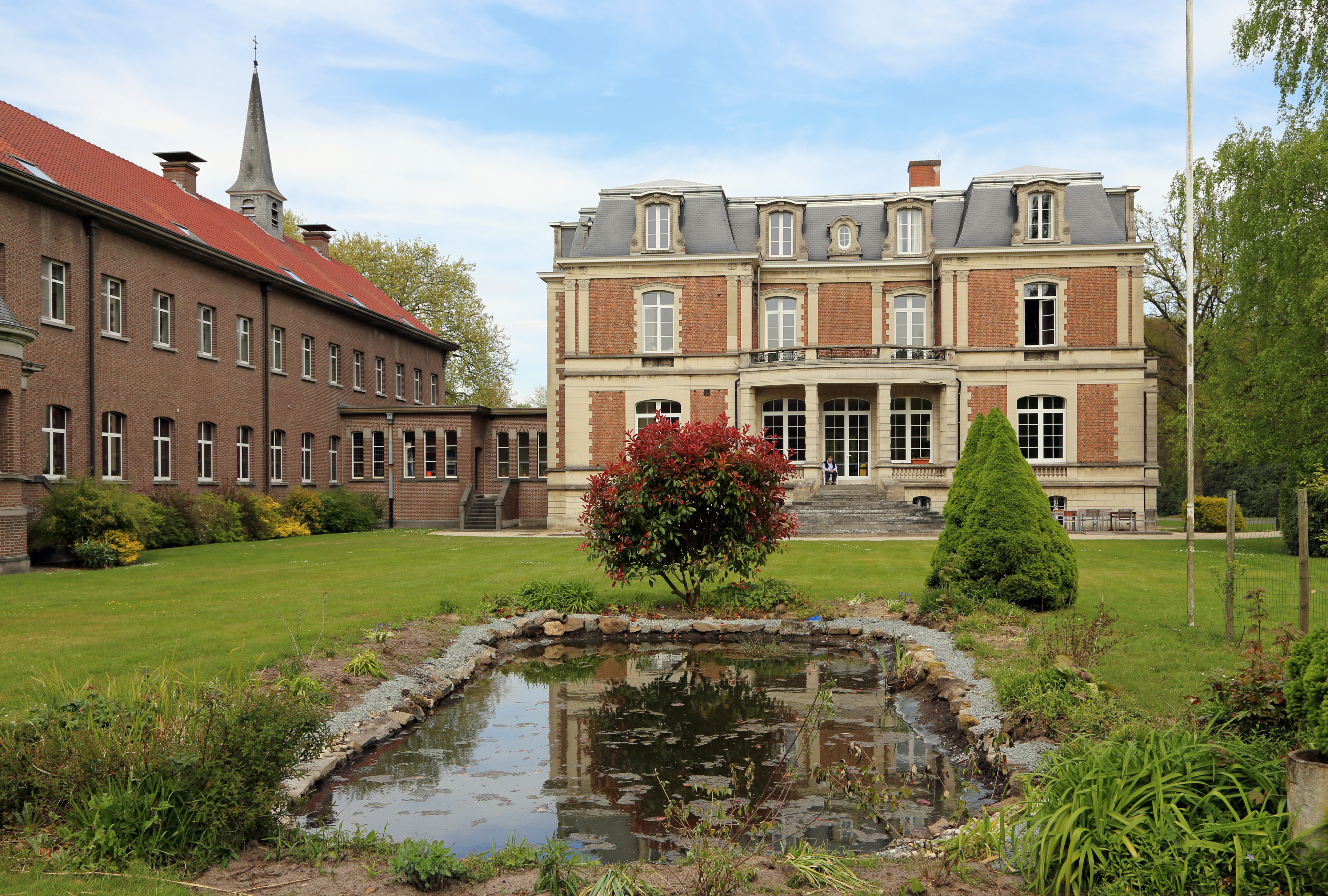 Maria-Aalter (municipality of Aalter, province of East Flanders, Belgium): Blekkervijver castle